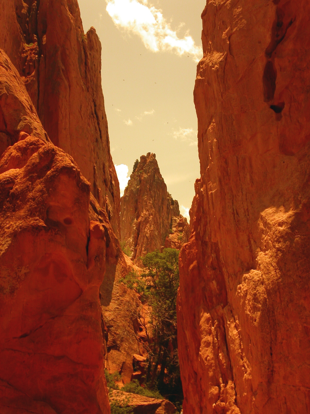 This is a shot through two large rocks in Garden of the Gods, CO. Notice the birds in the sky.